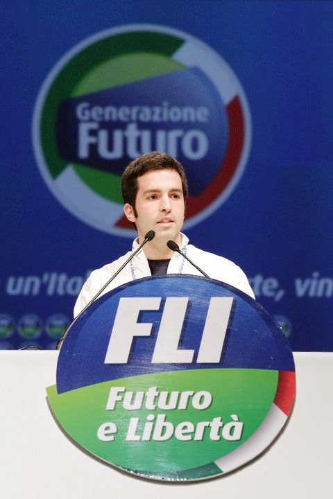 Perugia, Assemblea costituente FLI